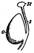 Drawing of carpel of lady’s-mantle (Alchemilla) with lateral style s; o, ovary, st, stigma. Enlarged.